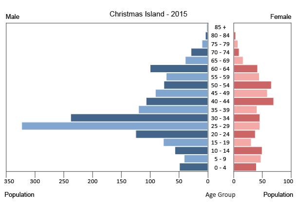 The population pyramid of Christmas Island illustrates the age and sex structure of population and may provide insights about political and social stability, as well as economic development. The population is distributed along the horizontal axis, with males shown on the left and females on the right. The male and female populations are broken down into 5-year age groups represented as horizontal bars along the vertical axis, with the youngest age groups at the bottom and the oldest at the top. The shape of the population pyramid gradually evolves over time based on fertility, mortality, and international migration trends.